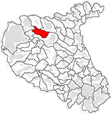 Limits of commune within Vrancea County